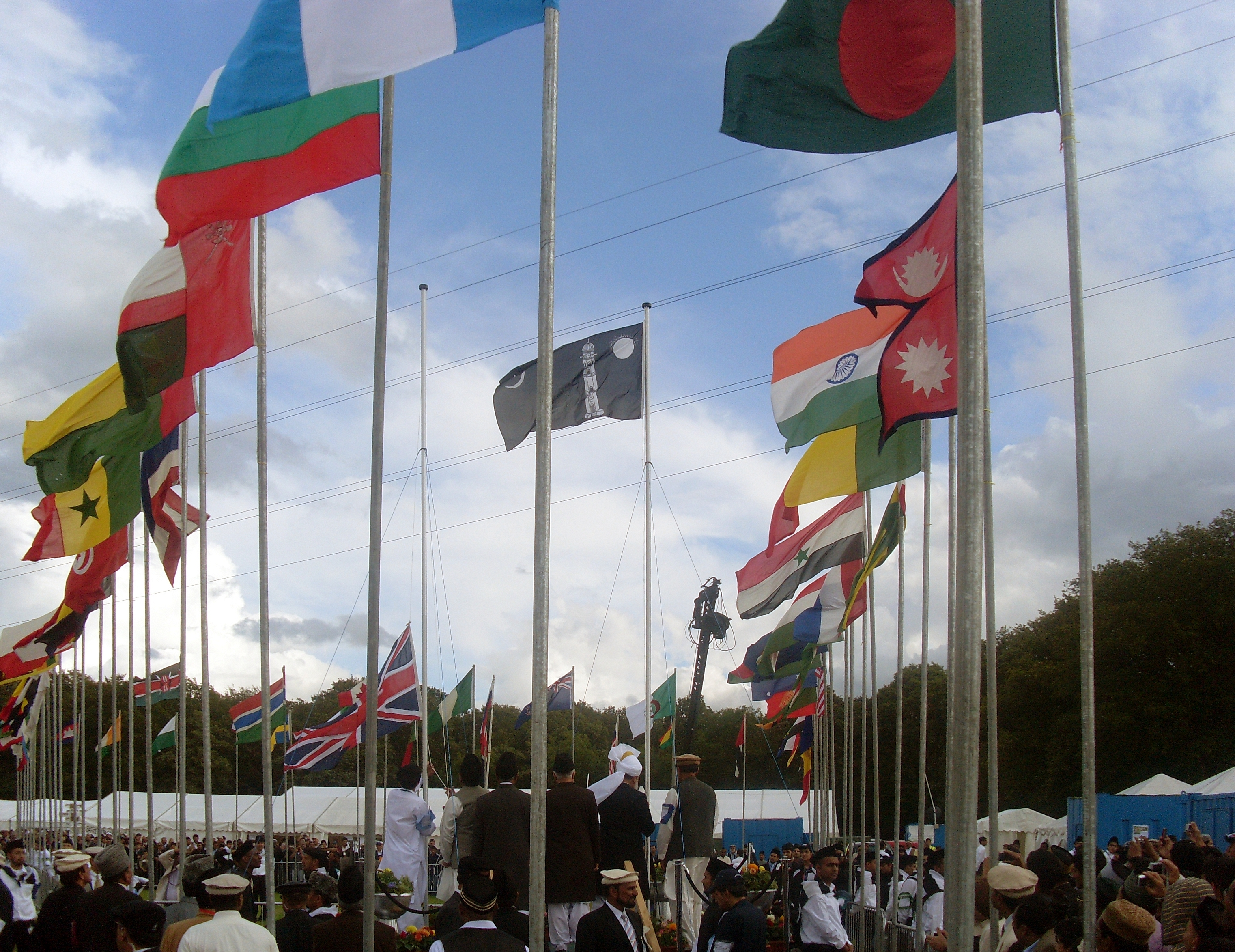 Flag hosting ceremony at the international Jalsa Salana in UK. The national Ameer Jamaat UK is hosting the Flag of Great Britain and the Khalif is hosting the Liwa-e-Ahmadiyya.